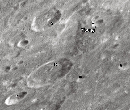 Young lunar crater as seen from Earth with satellite craters labeled